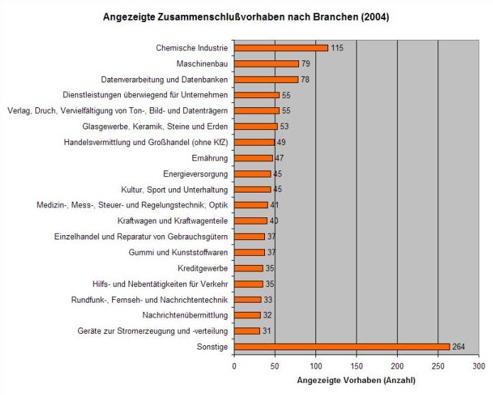 Number of mergers notified to German competition authority in 2004, by industry